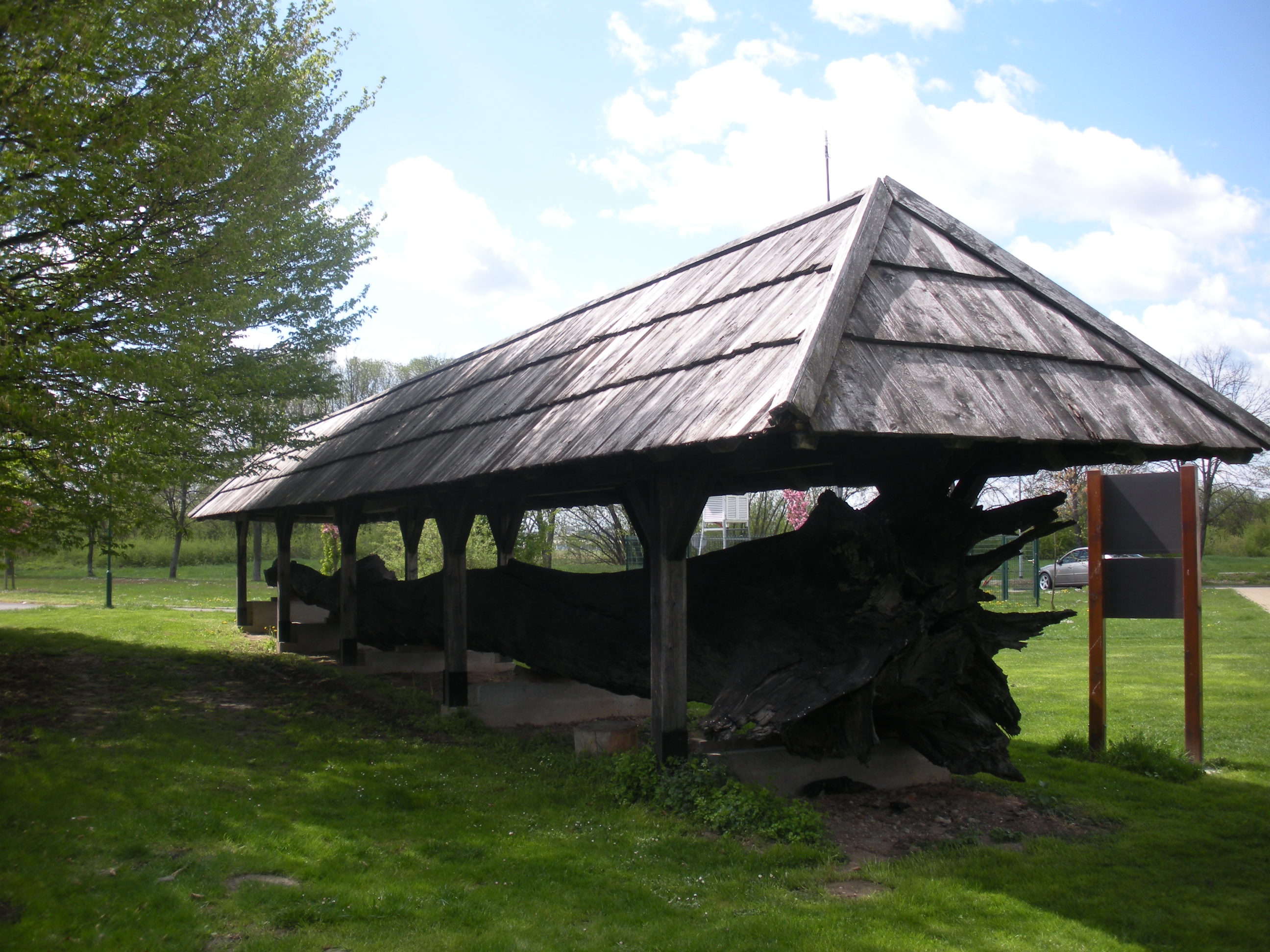 A fossil oak put on display in the park of Lipa Hotel in Lendava, Slovenia.